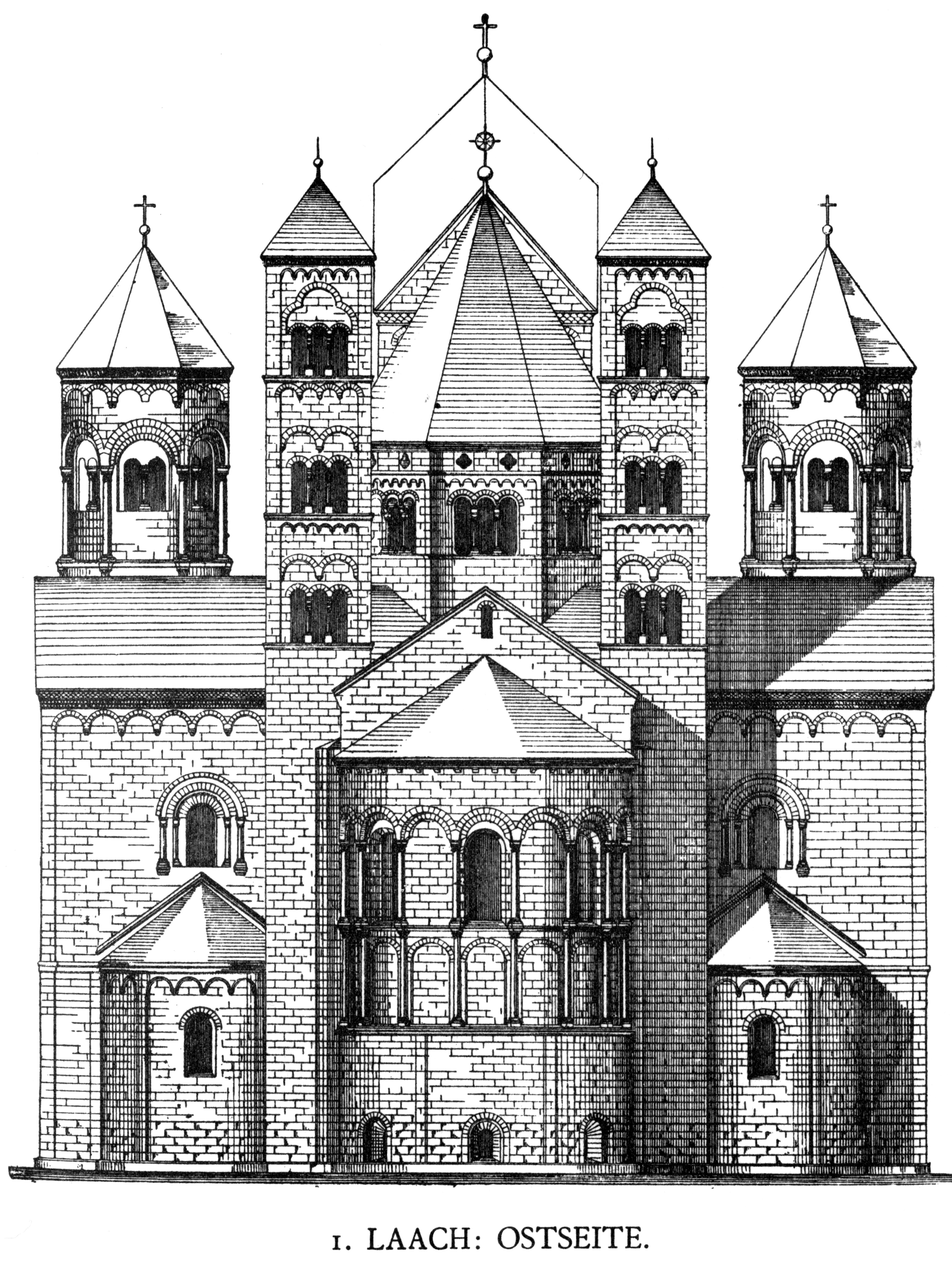 Maria Laach, monastery church, east view.